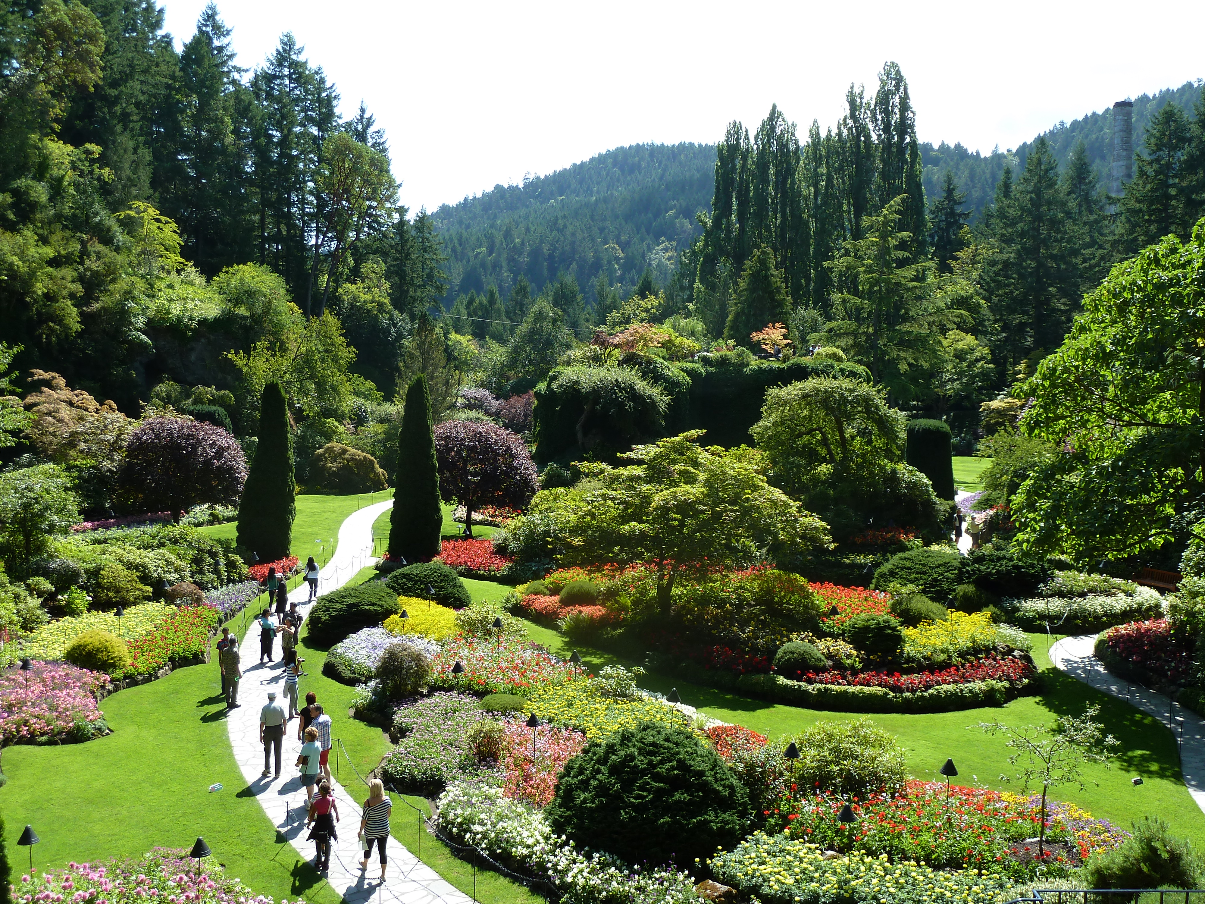 Butchart Gardens National Historic Site of Canada, British Columbia